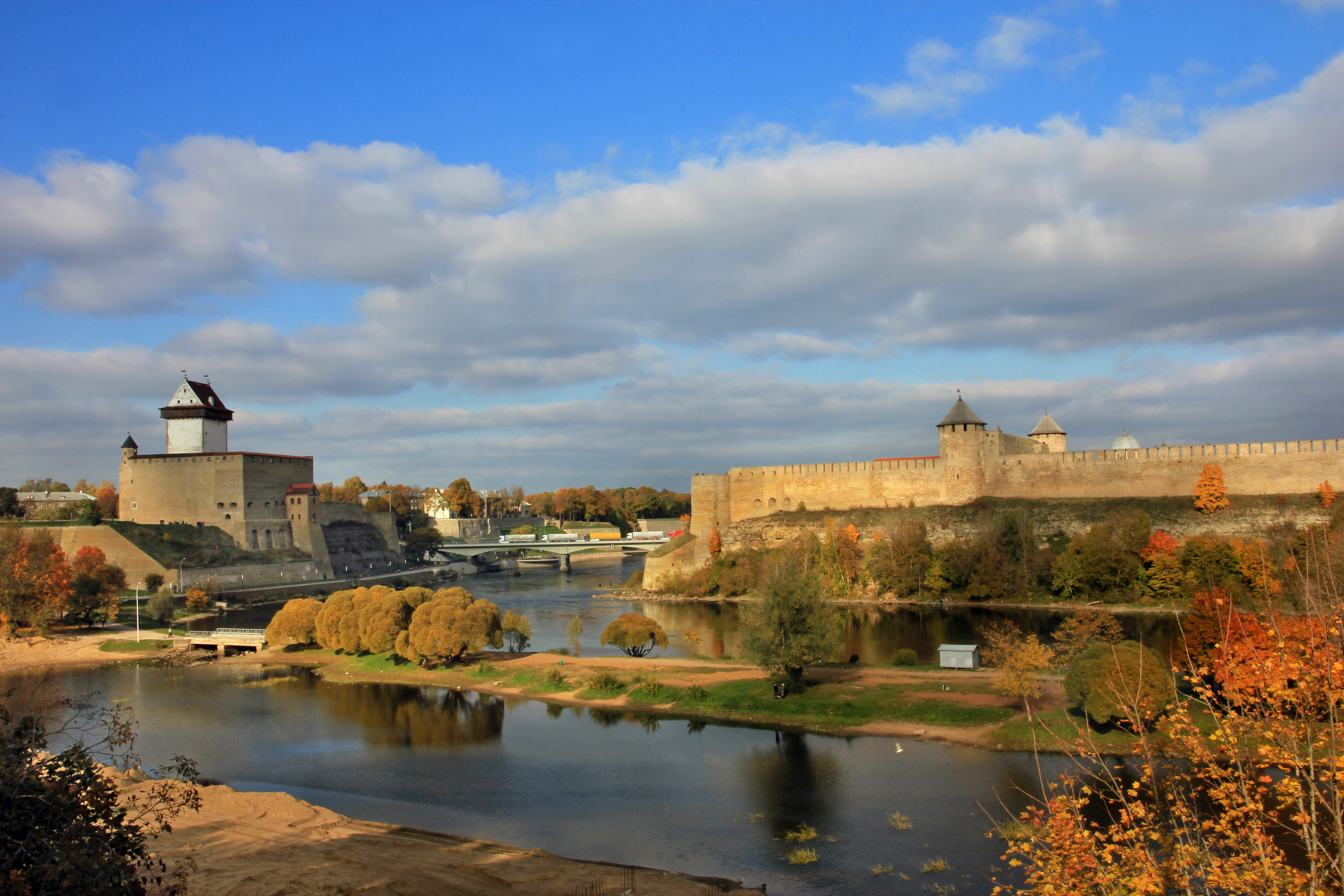 Narva River flows between Hermann Castle and the Ivangorod Fortress